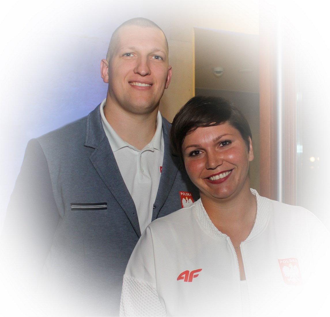 Wojciech Nowicki & his trainer Malwina Sobierajska-Wojtulewicz (2016 r.)